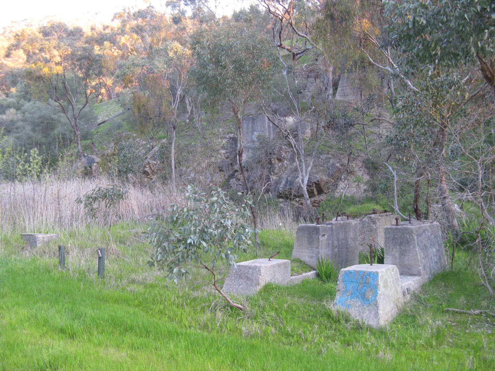 Quarry machinery foundations at Sleeps Hill railway station, Winter 2008.